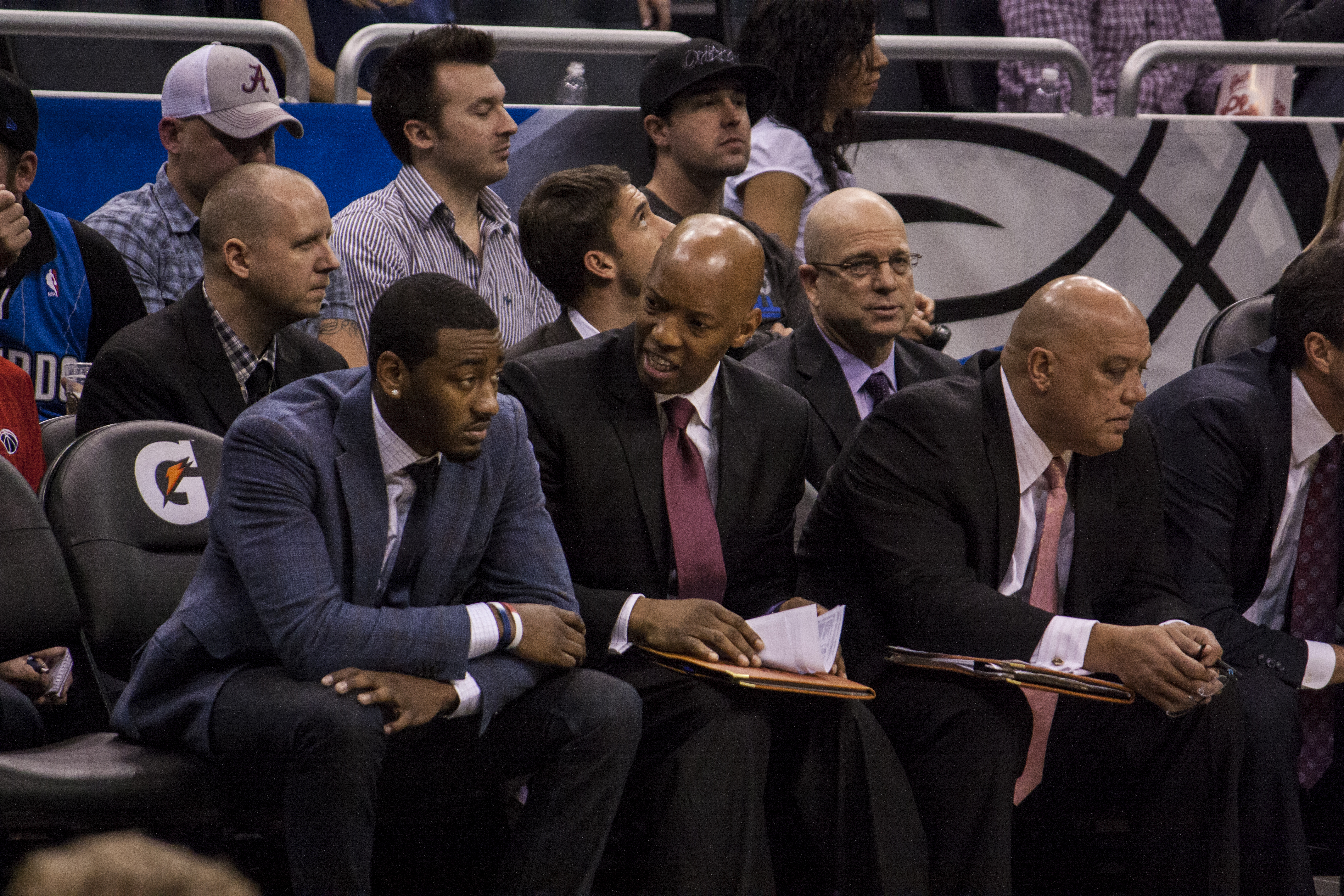 John Wall with Washington Wizards assistant coaches Sam Cassell and Don Newman